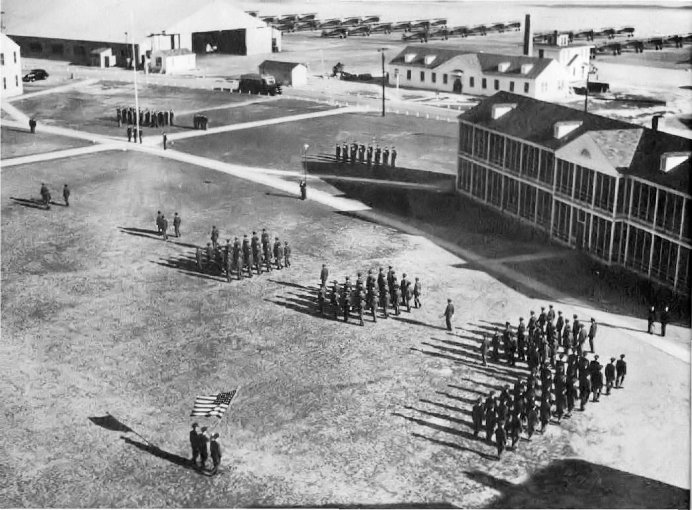 Photo of the parade grounds of the Hawthorne School of Aeronautics, near Orangeburg, South Carolina. Showing flight cadets of the 58th Flying Training Detachment, Eastern Flight Training Center, Army Air Forces Training Command in formation